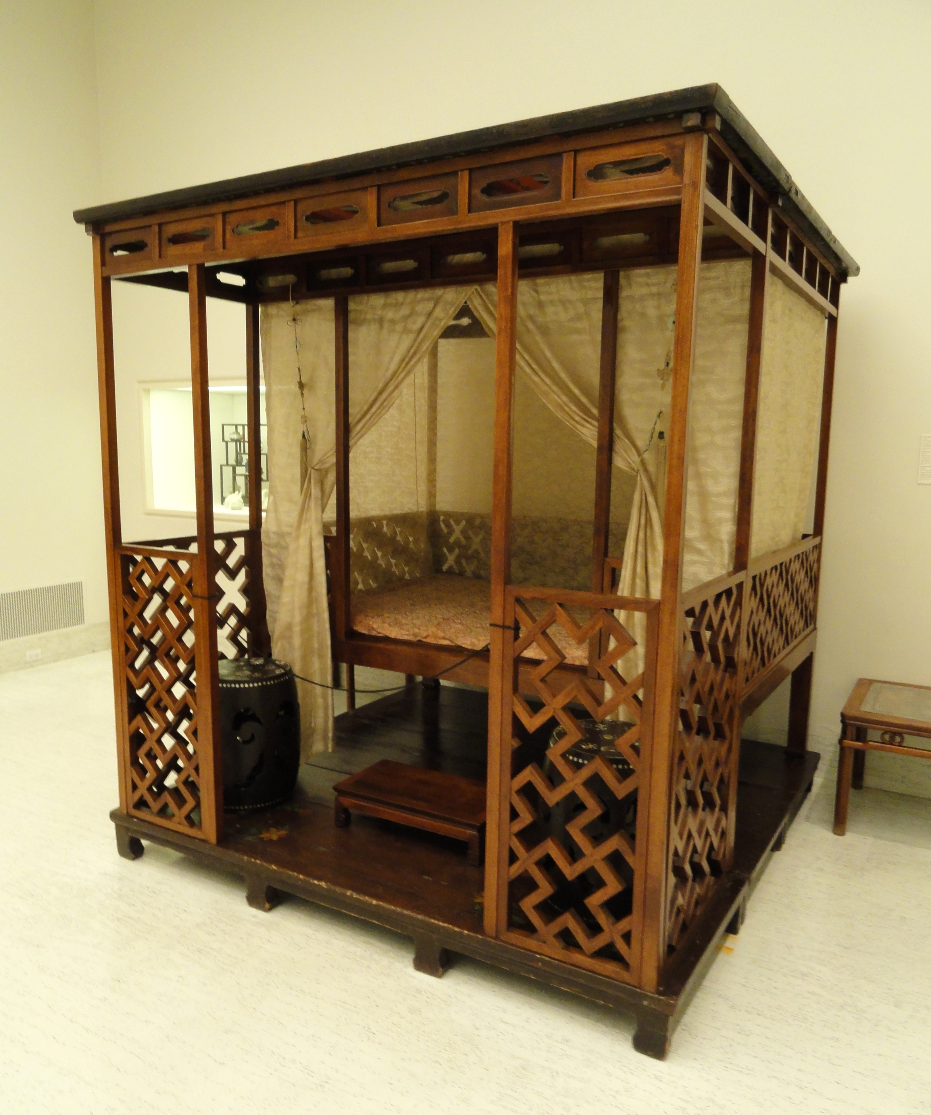 Exhibit in the Nelson-Atkins Museum of Art, Kansas City, Missouri. This artwork is old enough so that it is in the public domain, and the museum permitted photography without restriction. I took this photograph and release it into the public domain.